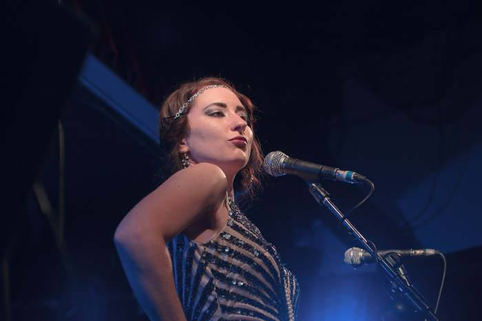 Robyn Adele Anderson - Amazingly talented lead vocalist of Postmodern Jukebox. PostModern JukeBox at Whelen's, Dublin, Ireland. Originally uploaded June 13, 2014